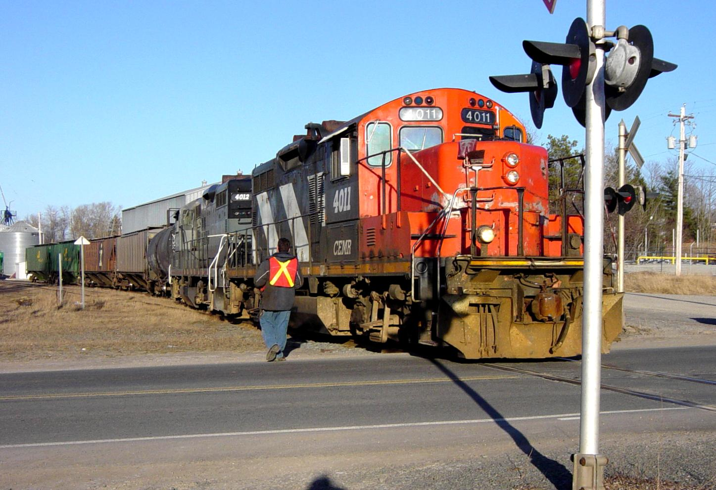 WHR freight train switching at Greenwich, Nova Scotia, at 5:30pm, 28 March 2006. Locomotive 4011 is leased from the Central Manitoba Railway (CEMR). The crew has pushed several grain cars into the siding, and is now moving out, across Highway 358, with five cars (four loads of feed grain and a tanker of cooking oil) to go west to New Minas.